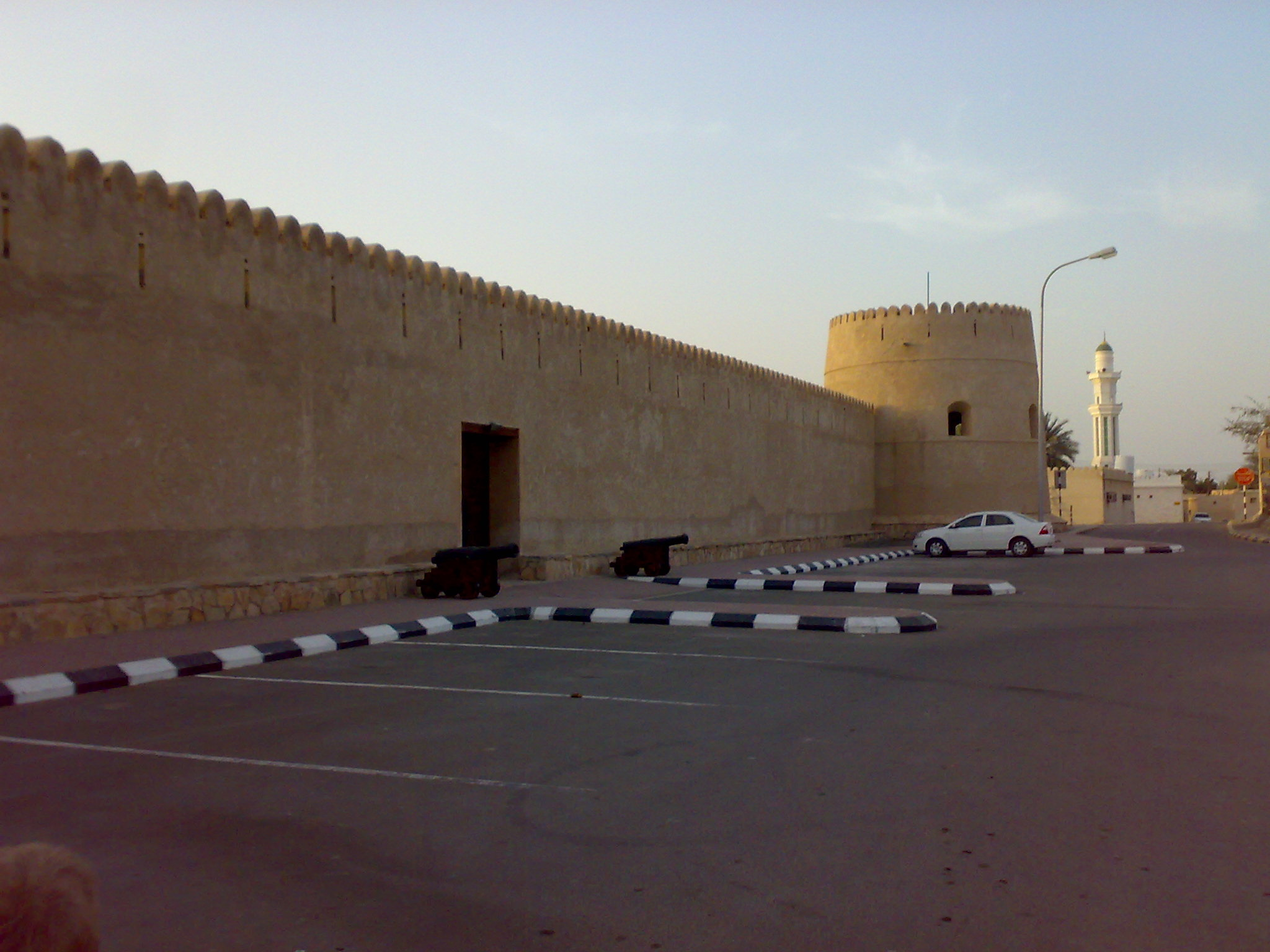 Shinas Fort, city of Shinas, northern Oman.